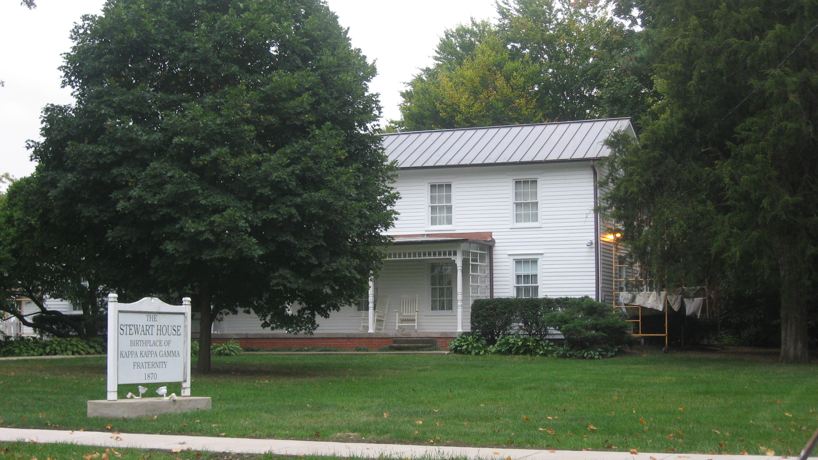 Front of the Minnie Stewart House, located at 1015 E. Euclid Avenue in Monmouth, Illinois, United States. Here was founded the ΚΚΓ sorority in 1870. Built in 1865, it is listed on the National Register of Historic Places.